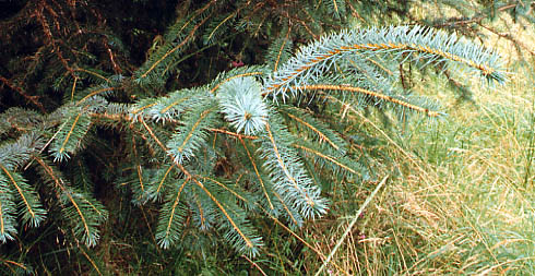 Picea sitchensis foliage